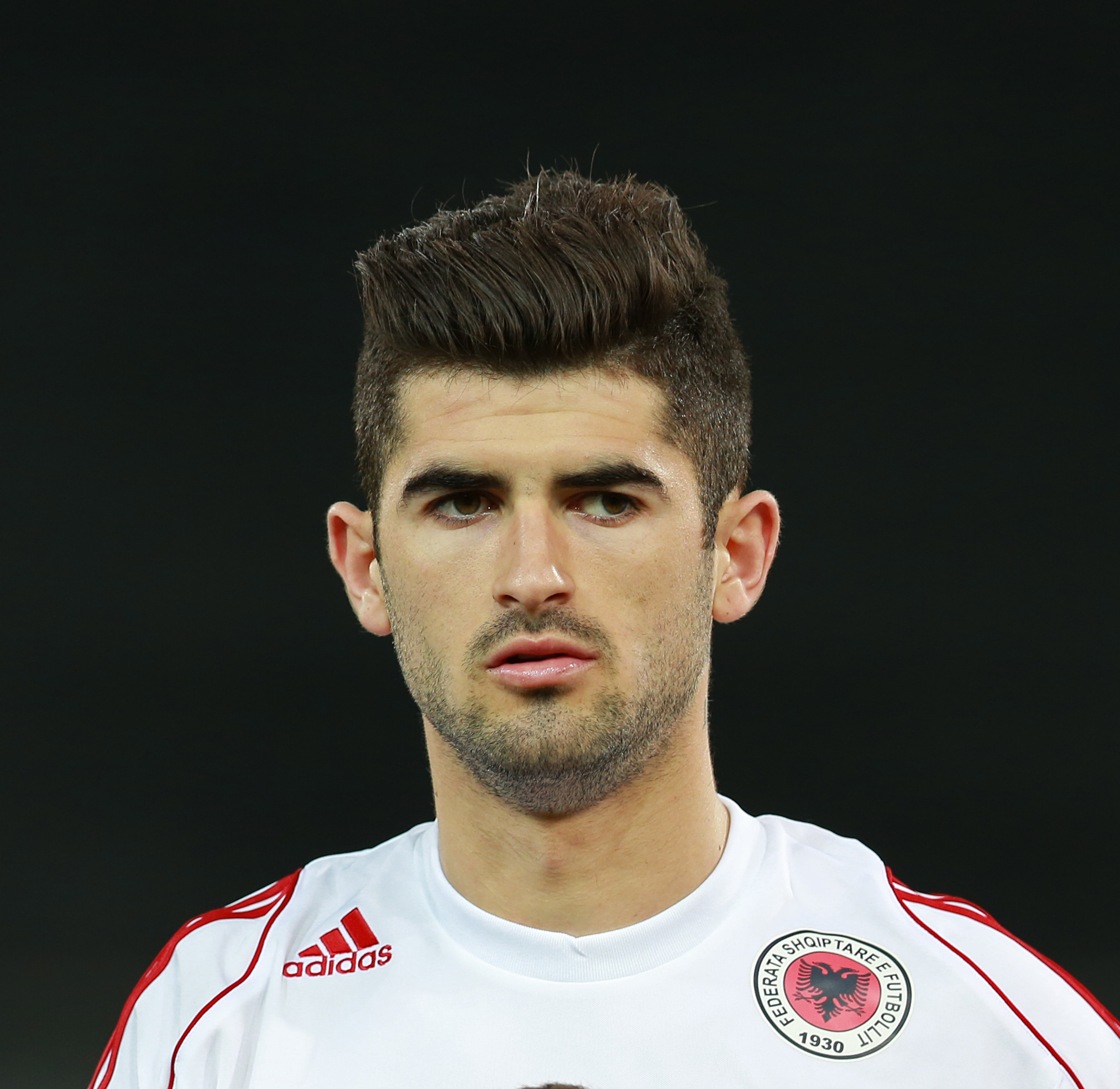 Elseid Hysaj at national under-21 football game Albania vs. Austria in Graz, UPC Arena, 5. March 2014